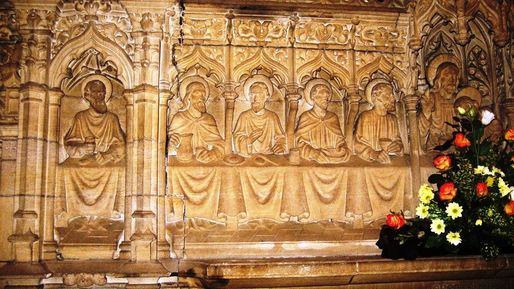 Part of reredos in Holy Trinity, Barrow Upon Soar carved by Nathaniel Hitch with theme of "The Last Supper"